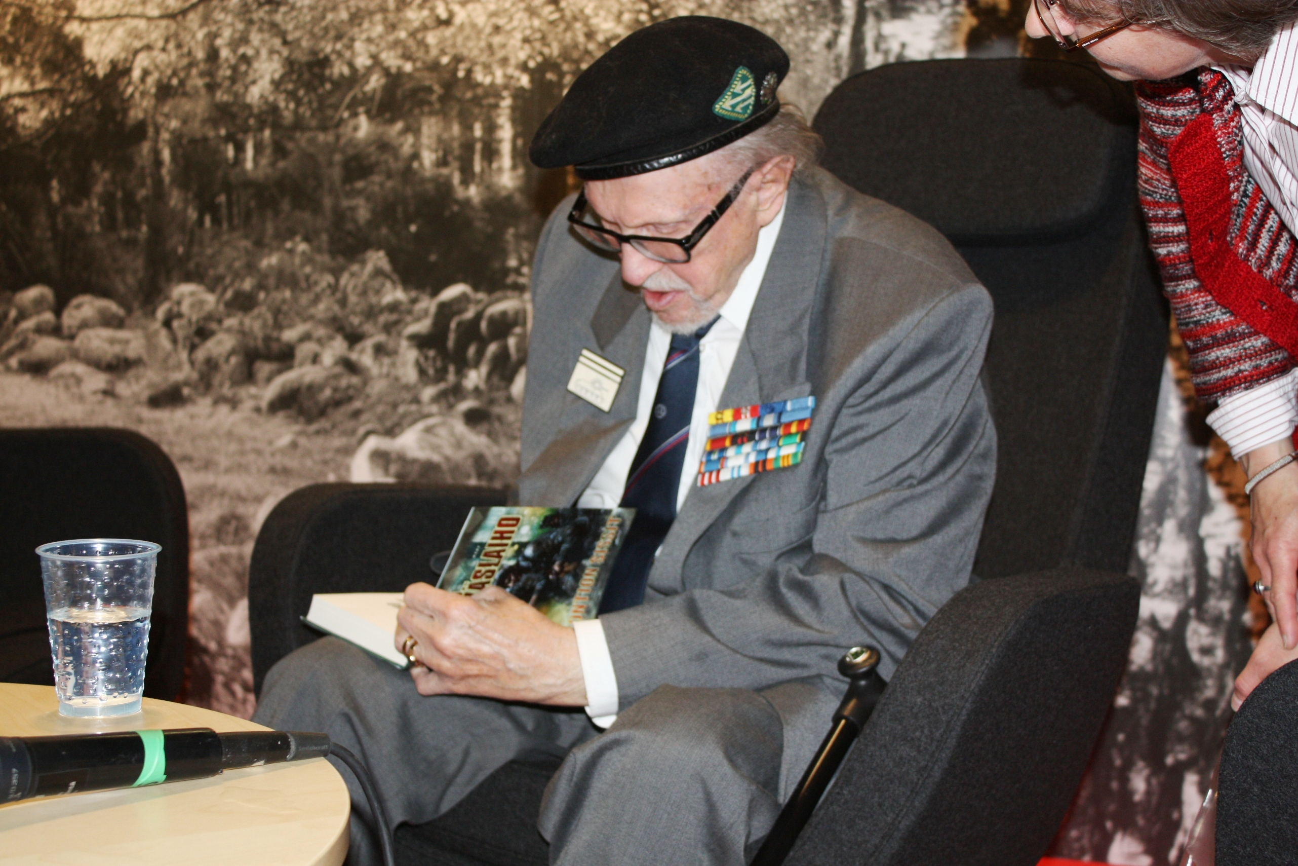 Finnish writer Reino Lehväslaiho signing his books at Helsinki Book Fair 2009